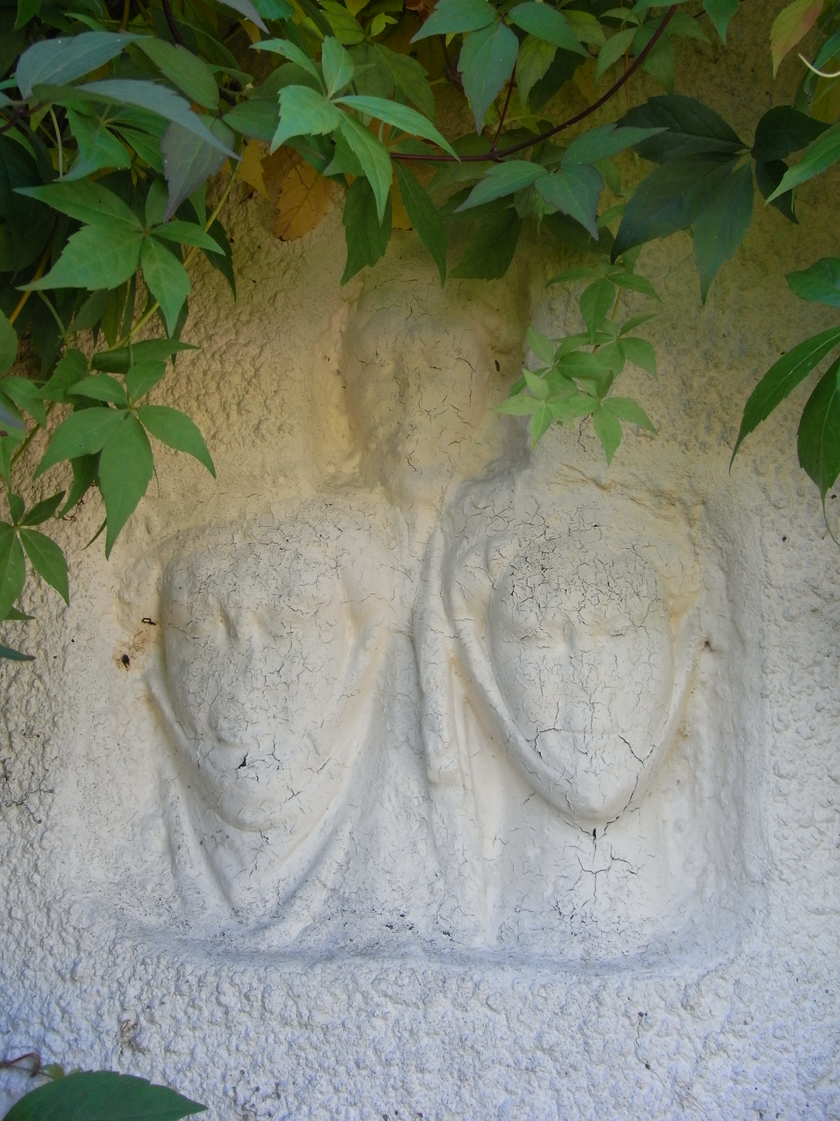 Sculpted reliefs of three faces, c.1300, now set into wall of facade of Way Barton, St Giles in the Wood parish, Devon. Two females wearing wimples below, with a mustachioed male above. Way was the seat of the Pollard family from c. 13th.c. These faces may have come from the now lost oratory which Robert Pollard was licenced to establish at "Weye" in 1309 by the Bishop of Exeter.